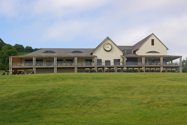 The Twenty Ten clubhouse, Celtic Manor Resort, Newport, Wales